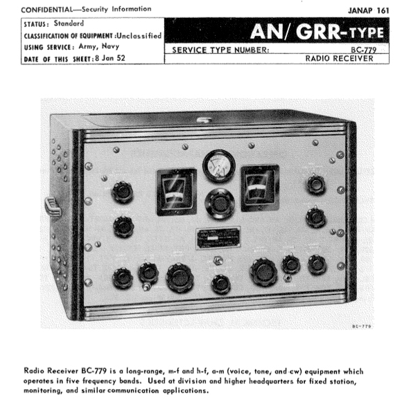 Data sheet for BC-779 radio receiver